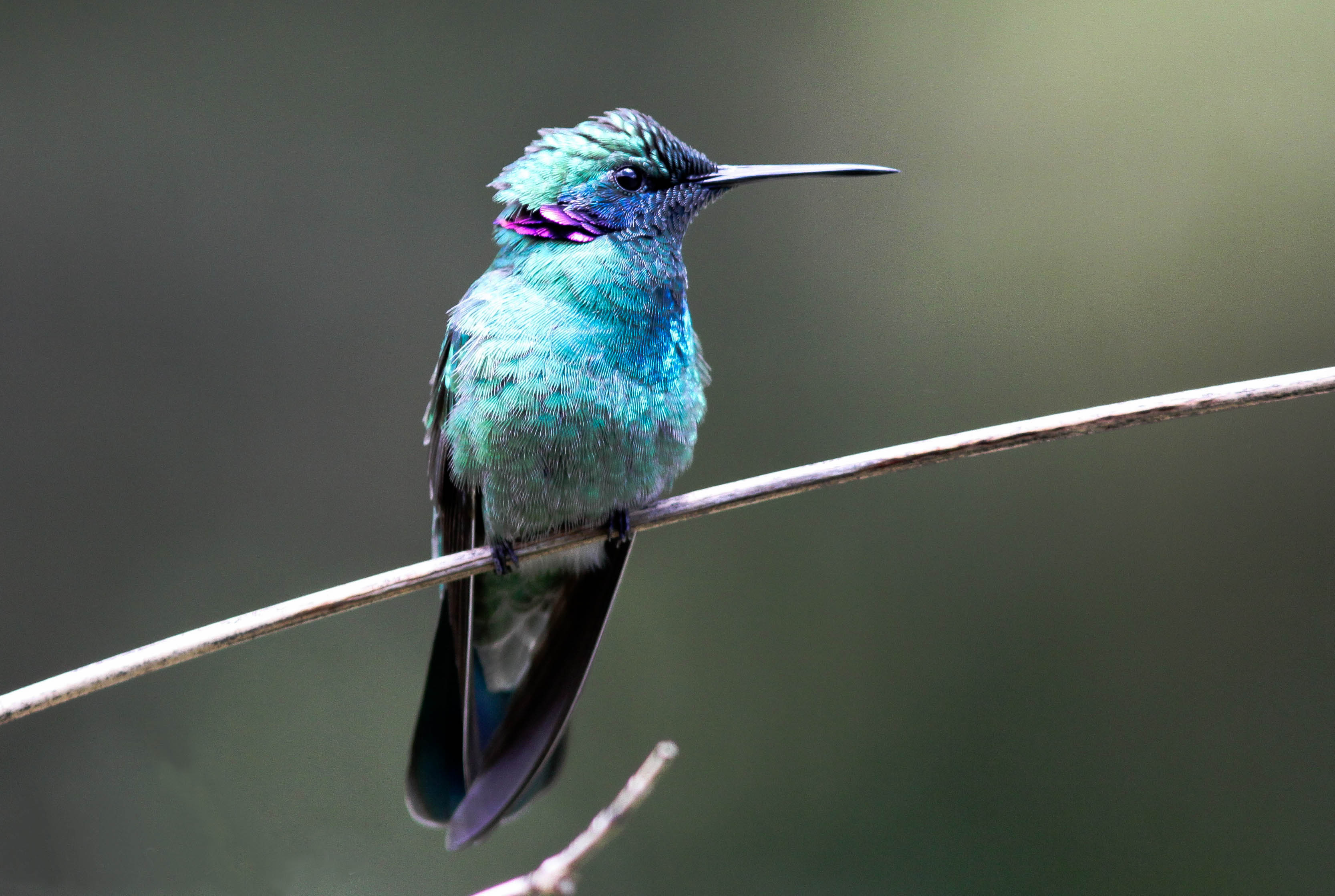 (Colibri serrirostris)